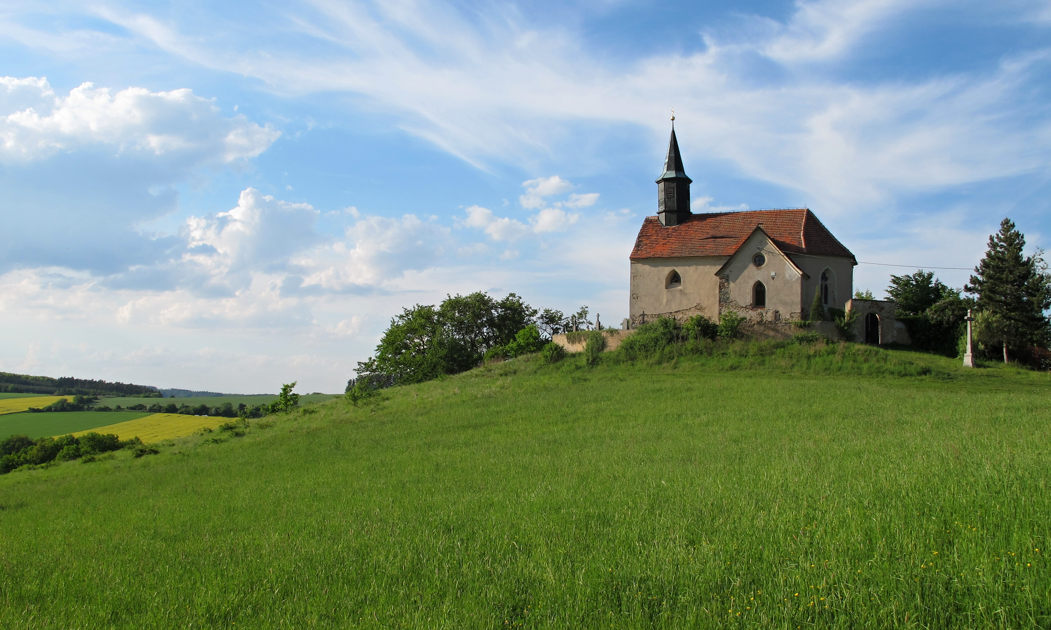 Church of Saint Wenceslaus in Chvojínek, Benešov District in Czech Republic